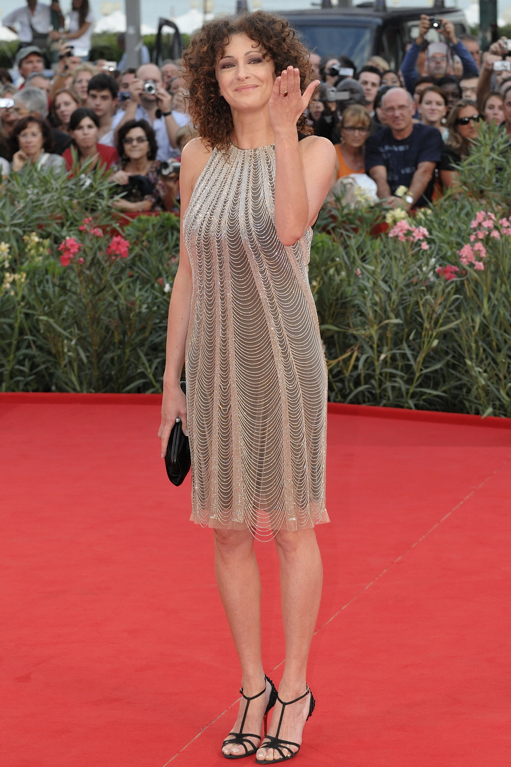 Actress Kseniya Rappoport attends the Closing Ceremony at the Sala Grande during the 66th Venice Film Festival on September 12, 2009 in Venice, Italy.